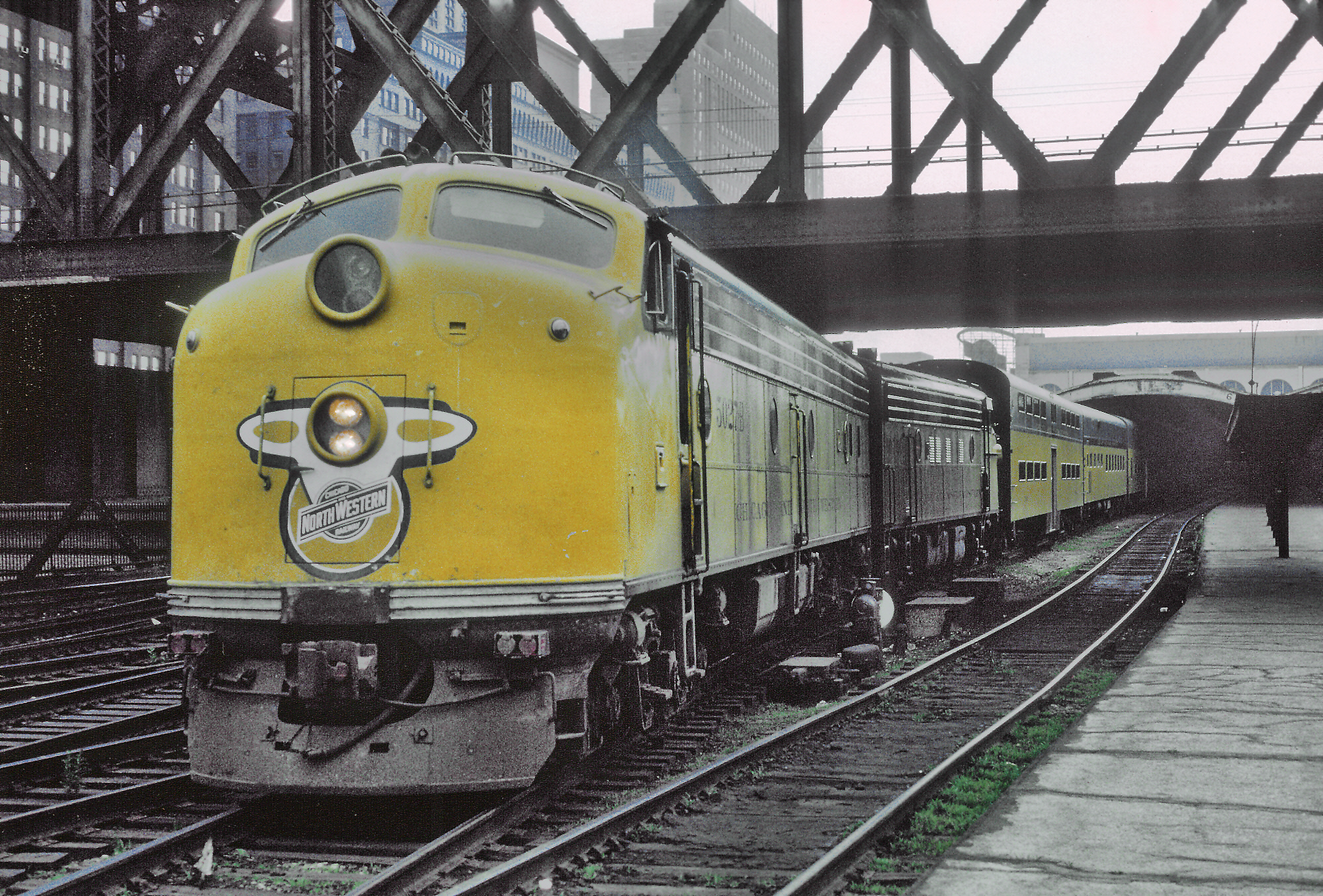 CNW 5027B (E8A) in Chicago, IL in July 1964.